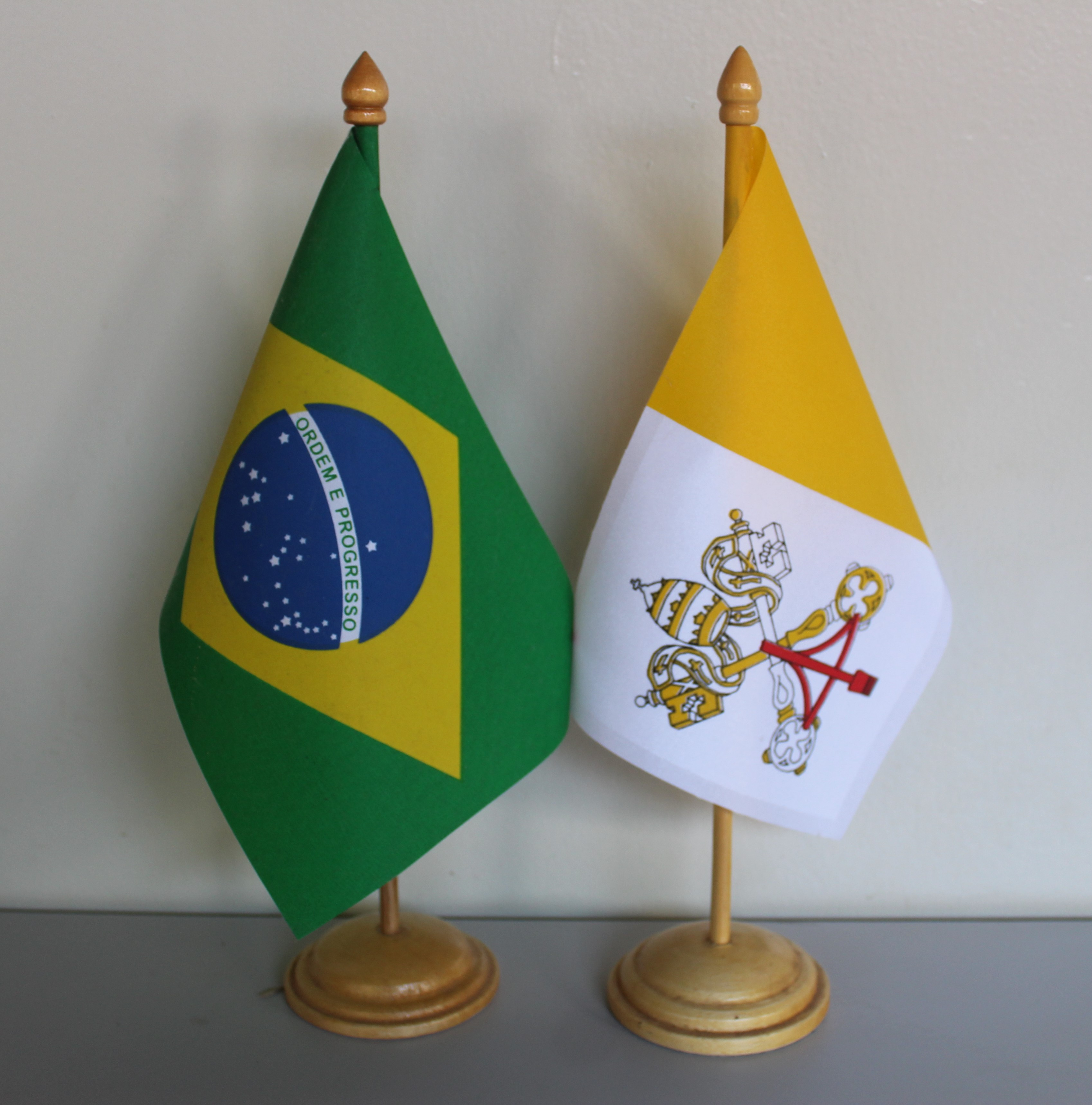 Brazil–Holy See relations. Flags.